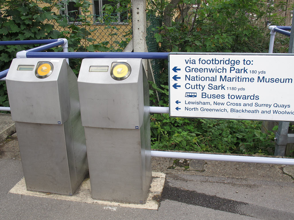 Oyster card readers